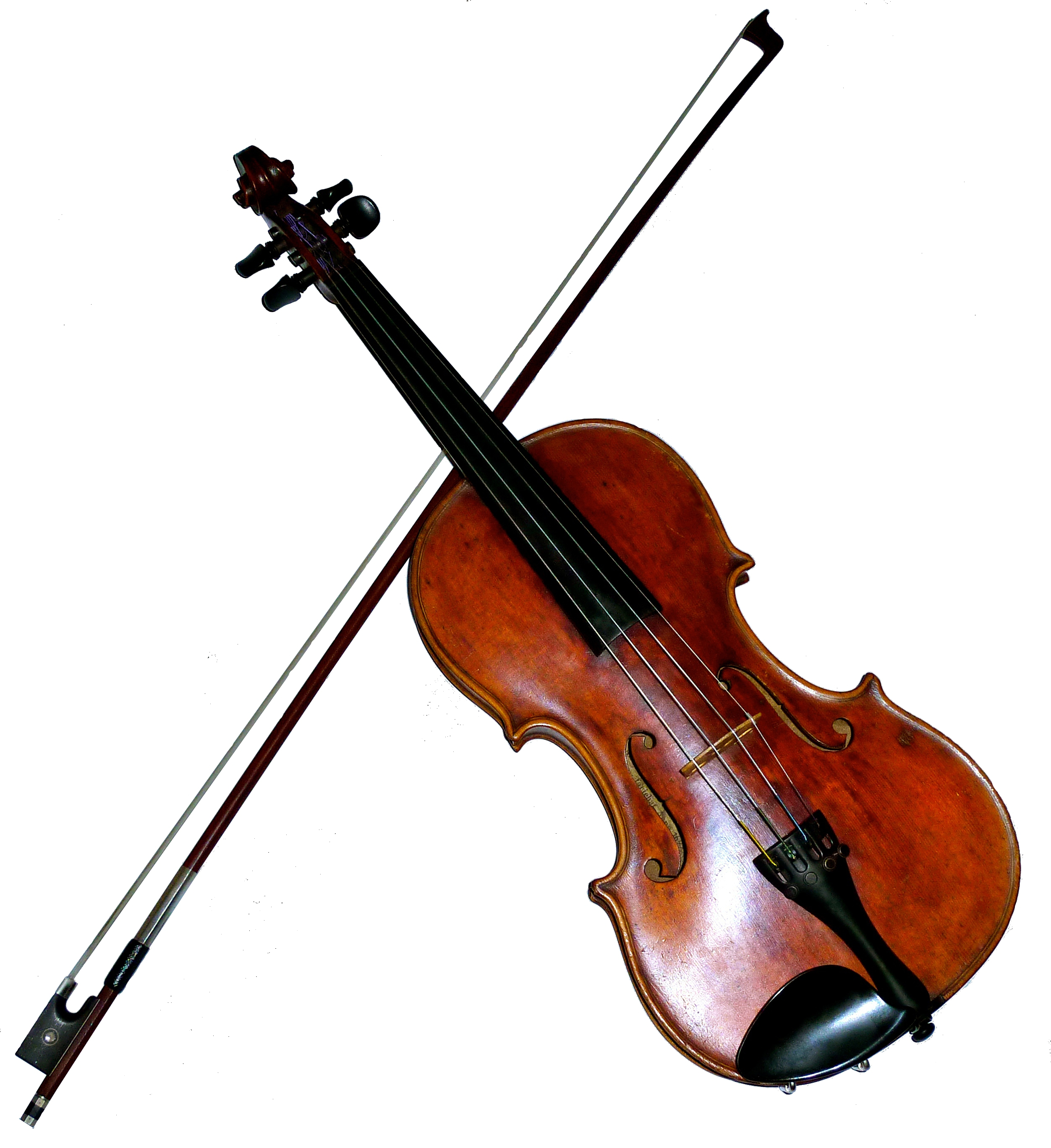 A German, maple Violin made in c.1880. It has dominant strings and ebony fittings. Beneath is a W.E. Dörfler bow